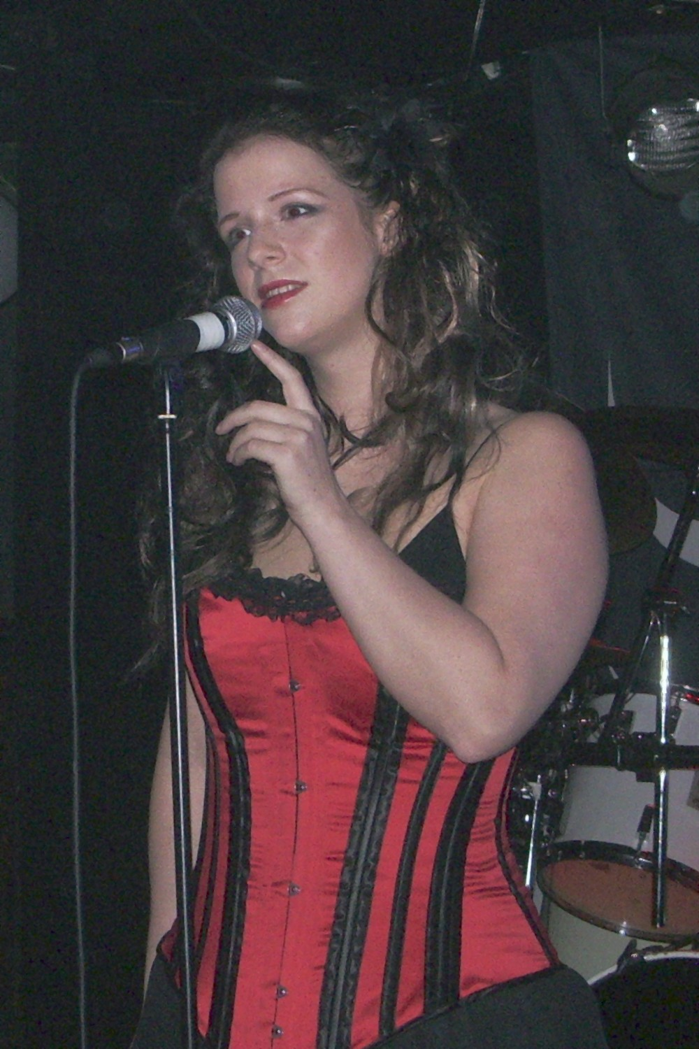 Lisa Middelhauve of Xandria at The Underworld in London, 12th August 2006